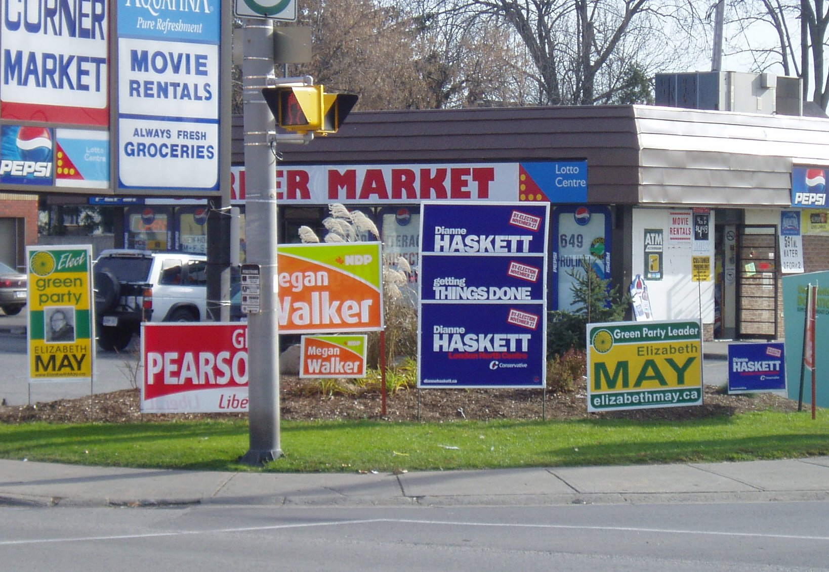 Campaign signs in London, Ontario, 25 November 2006.